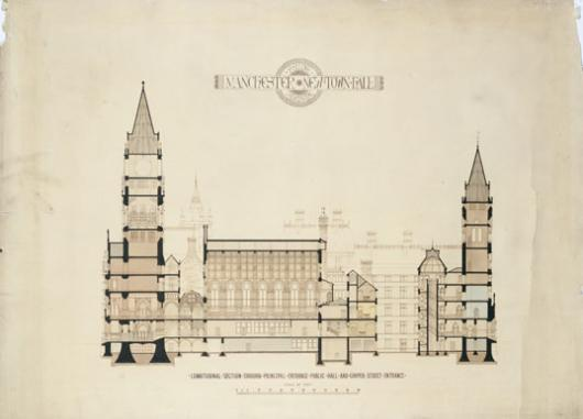 A cross section drawing by architect, Alfred Waterhouse of his winning design for the Manchester Town Hall. Drawn sometime before 1866.